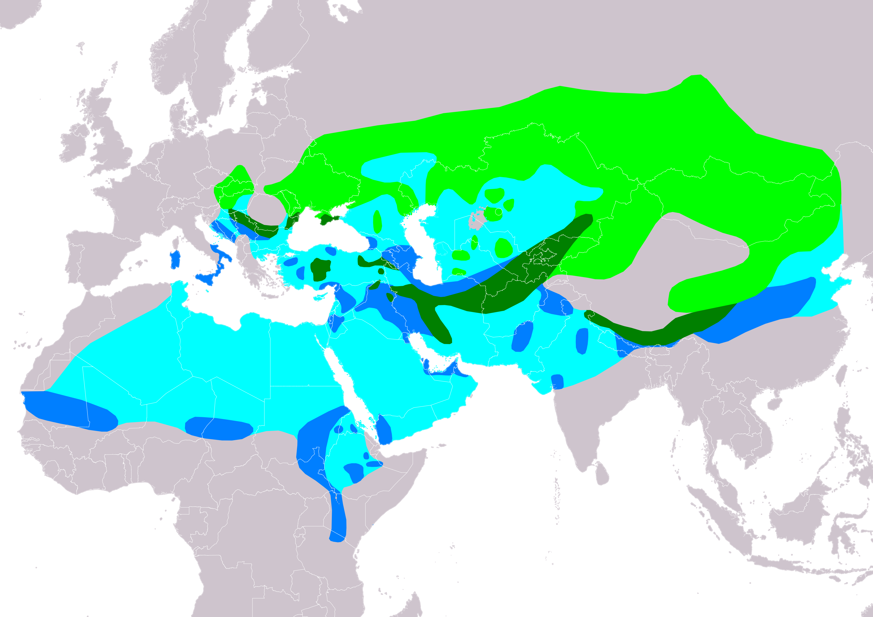 Geographic range of the saker falcon (Falco cherrug) according to IUCN version 2019-2 ; key: Legend: Extant, breeding (#00FF00), Extant, resident (#008000), Extant, passage (#00FFFF), Extant, non-breeding (#007FFF)